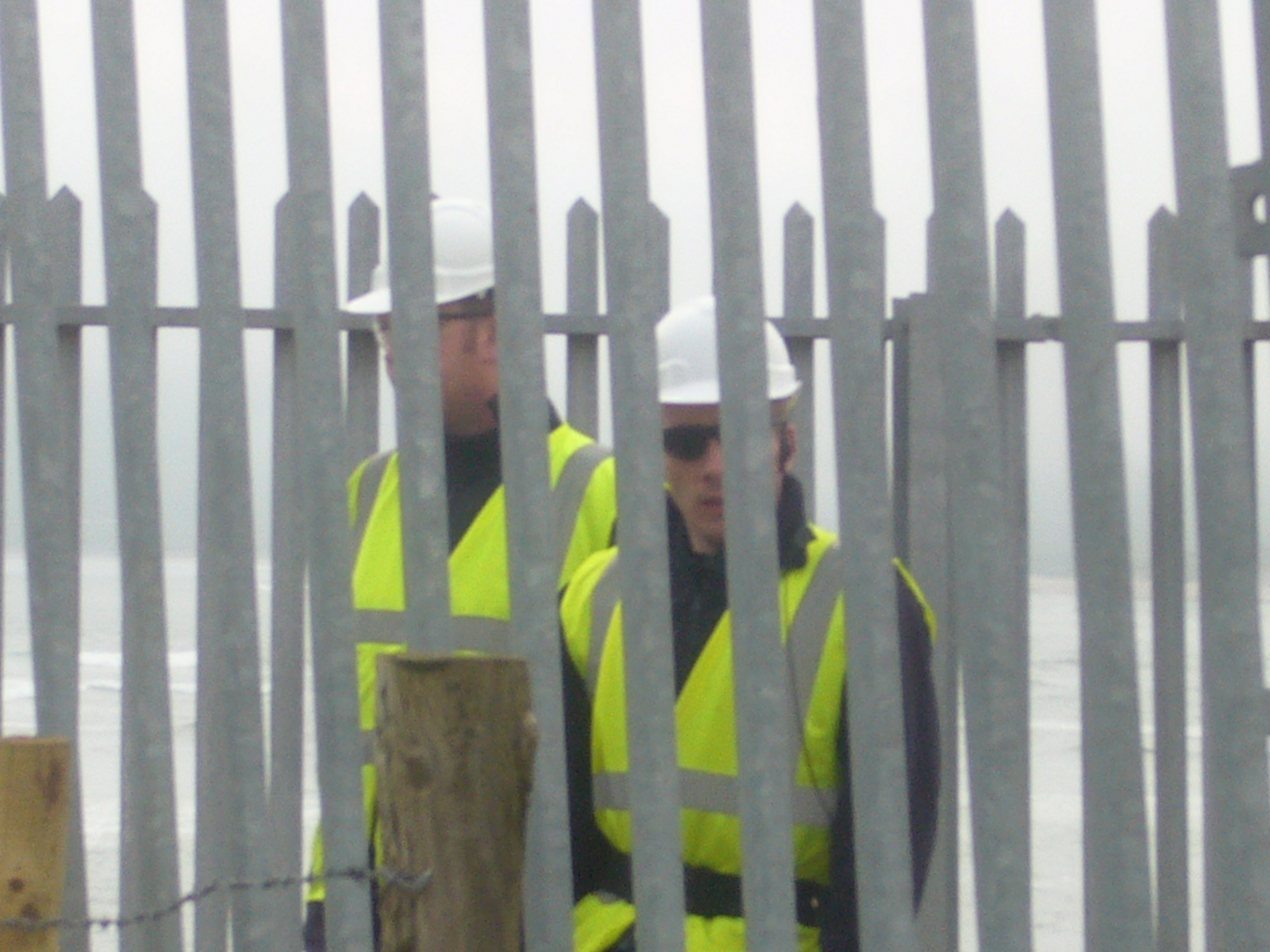 Two agents of the Integrated Risk Management Service (IRMS) inside the Shell Compound